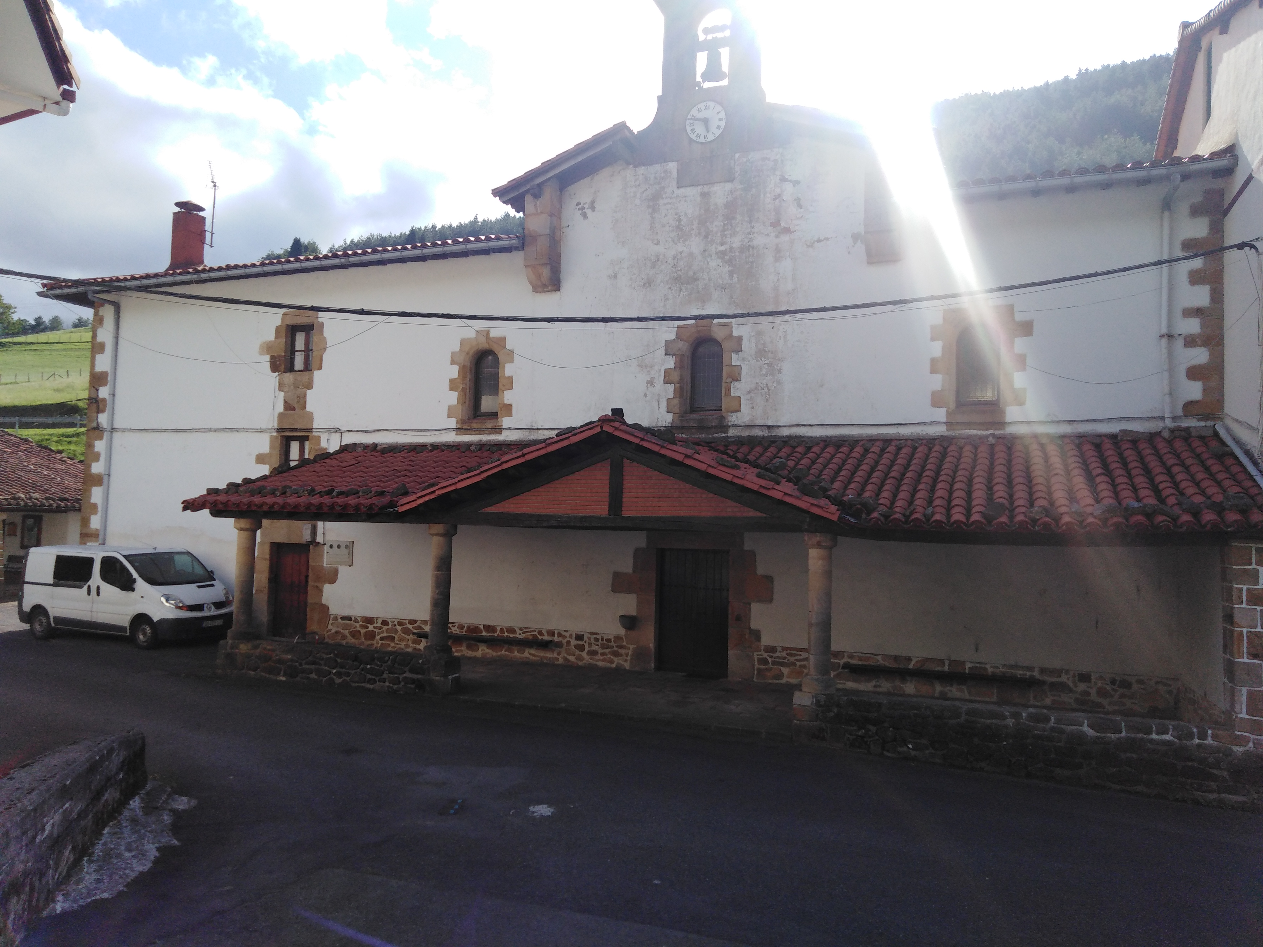 San Agustin, Brinkola, Legazpi, Gipuzkoa, Basque Country